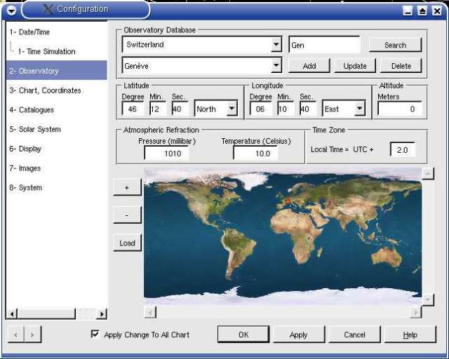 Cartes du ciel